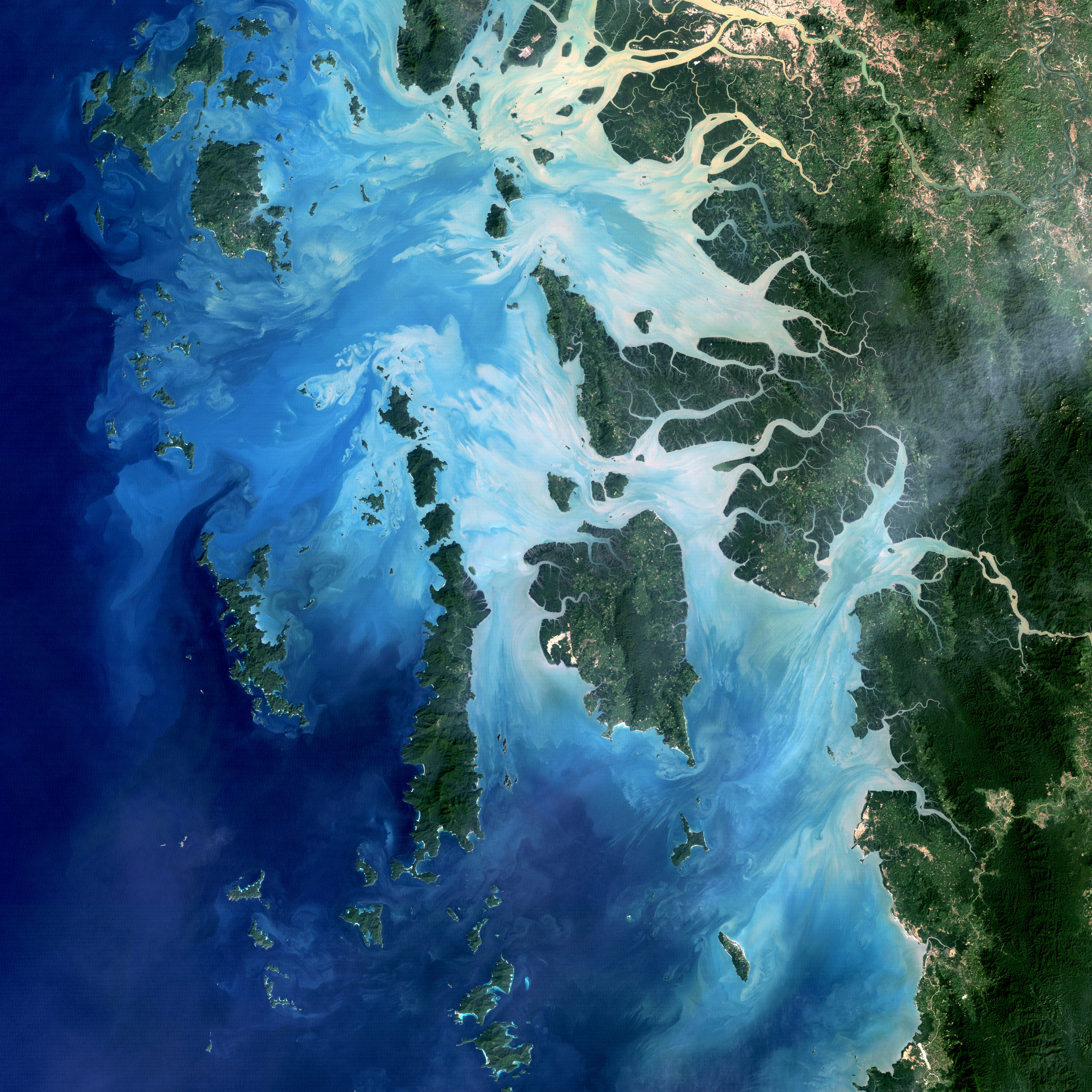 Mergui Archipelago, Myanmar NASA image acquired December 14, 2004 In the southernmost reaches of Burma (Myanmar), along the border with Thailand, lies the Mergui Archipelago. The archipelago in the Andaman Sea is made up of more than 800 islands surrounded by extensive coral reefs. Landsat image created by Michael Taylor, Landsat Project Science Office. Caption by Laura Rocchio. Instrument: Landsat 5 - TM Credit:NASA Earth Obsevatory